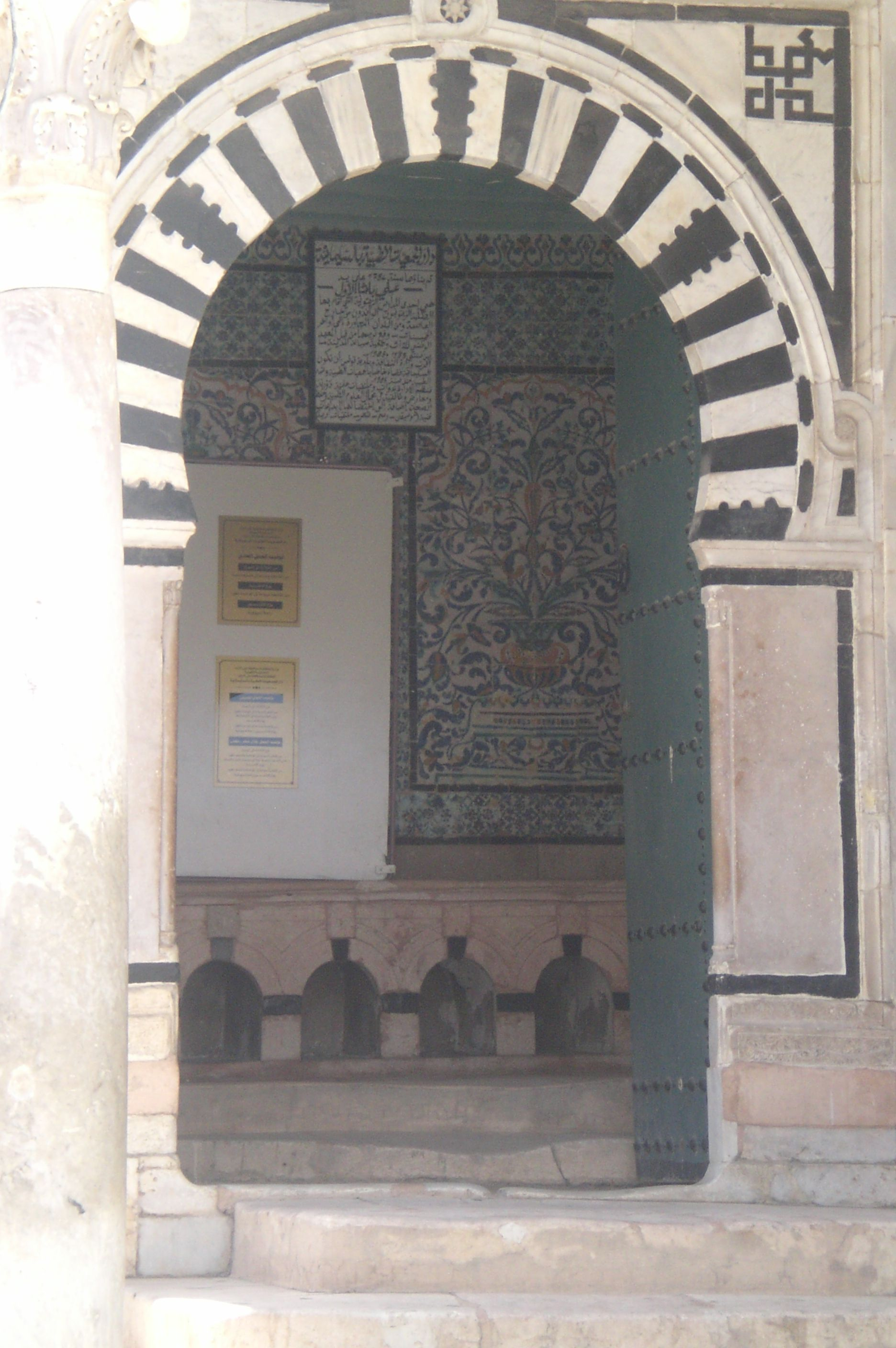 The Slimaniya medersa in Tunis